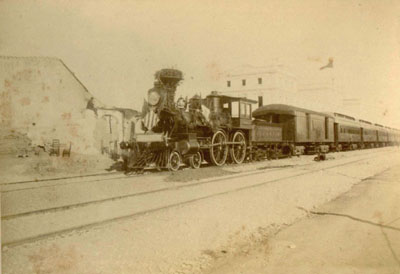 Inauguration train of Vilanova's railway .